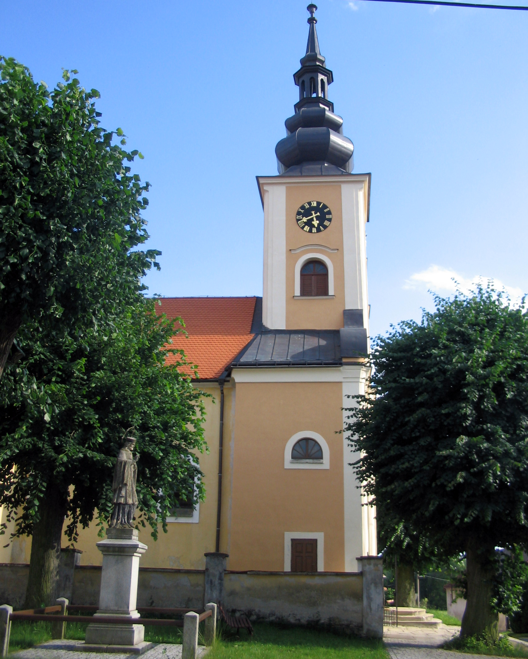 Stara Rise, All saints church